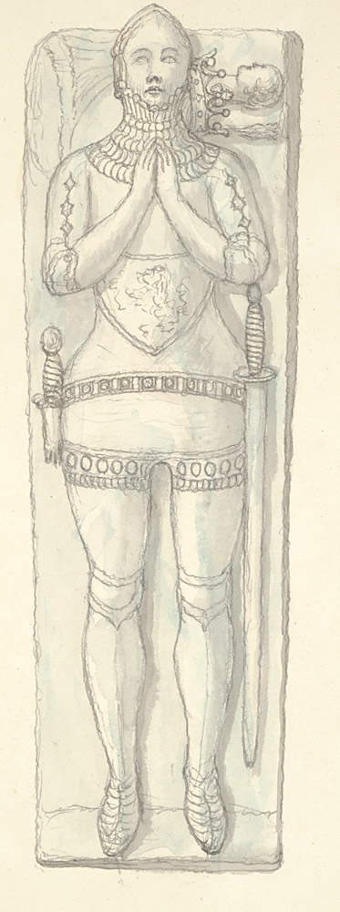 Effigy of a warrior, c.1796